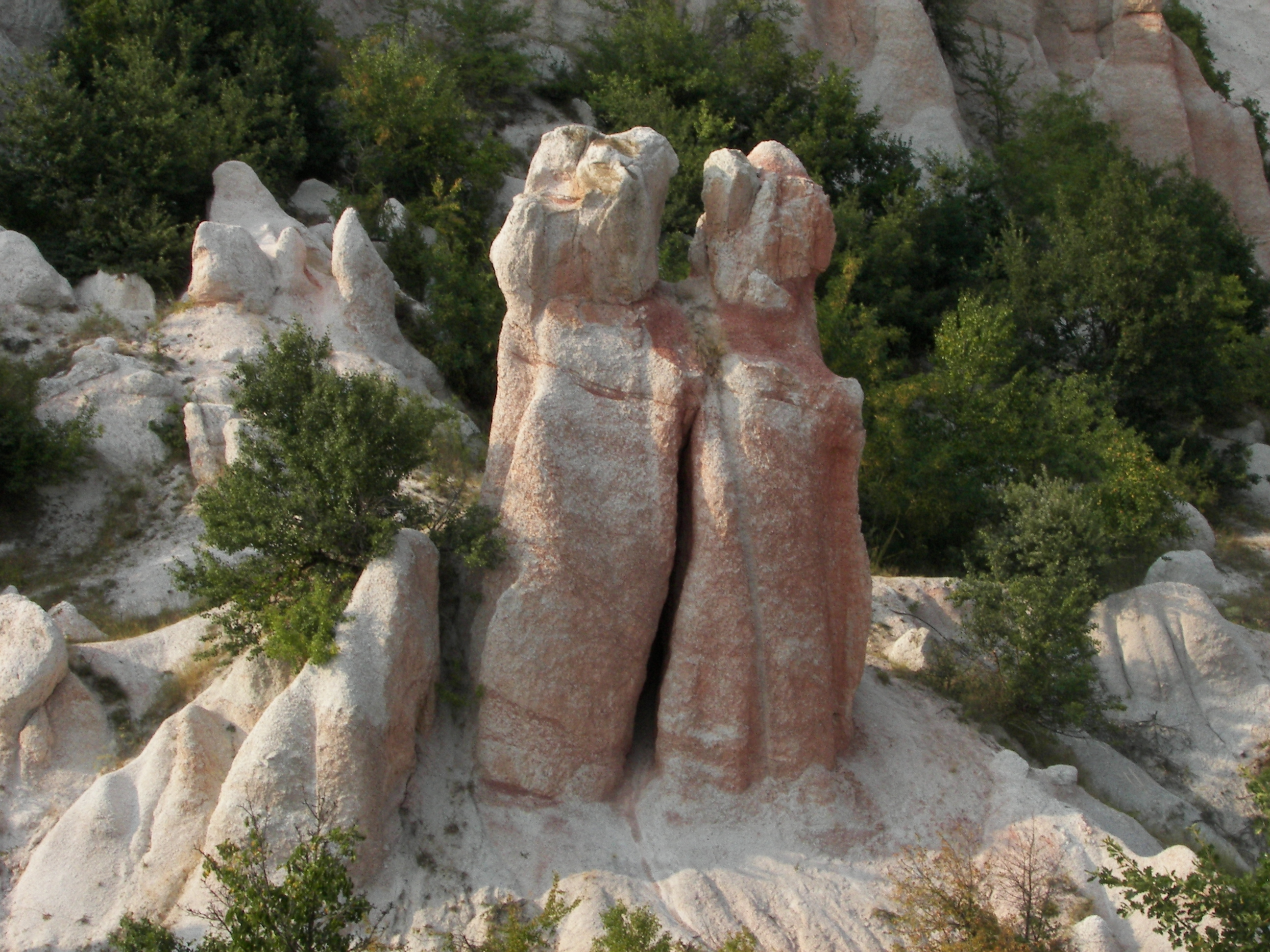 The natural phenomenon Kamenna svatba in Southeast Bulgaria near Kardzhali.